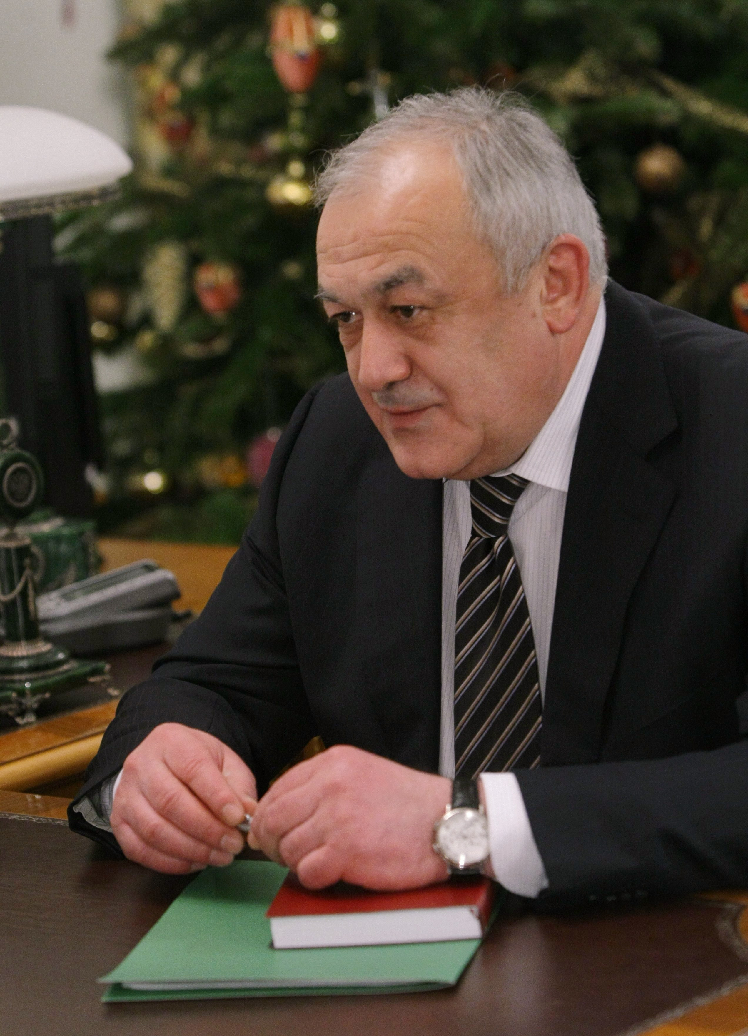 Head of the Republic of North Ossetia-Alania Taimuraz Mamsurov at a meeting with Prime Minister Vladimir Putin